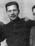 pavel postyshev (1887-1939)